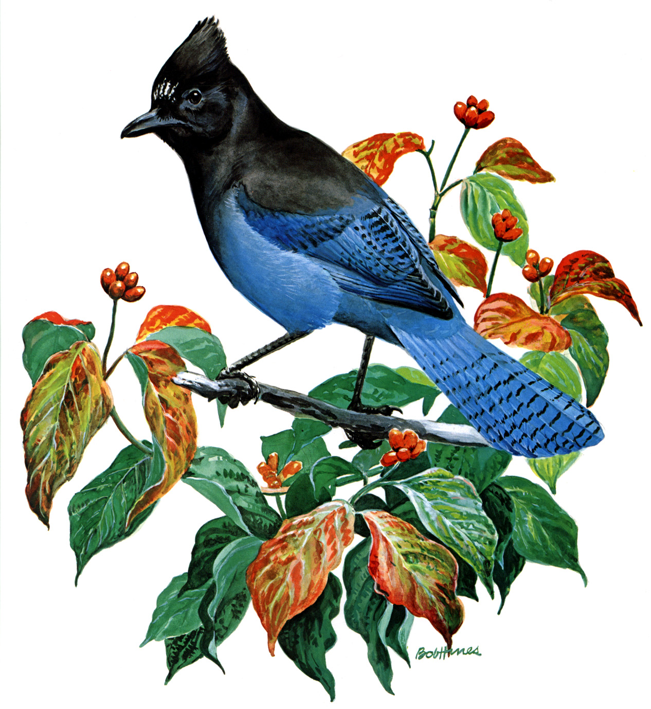 Steller's Jay , Cyanocitta stelleri, Offset reproduction of acrylic painting.